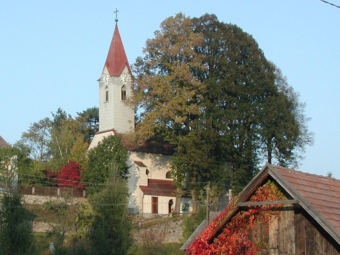 Church of Siebenlinden